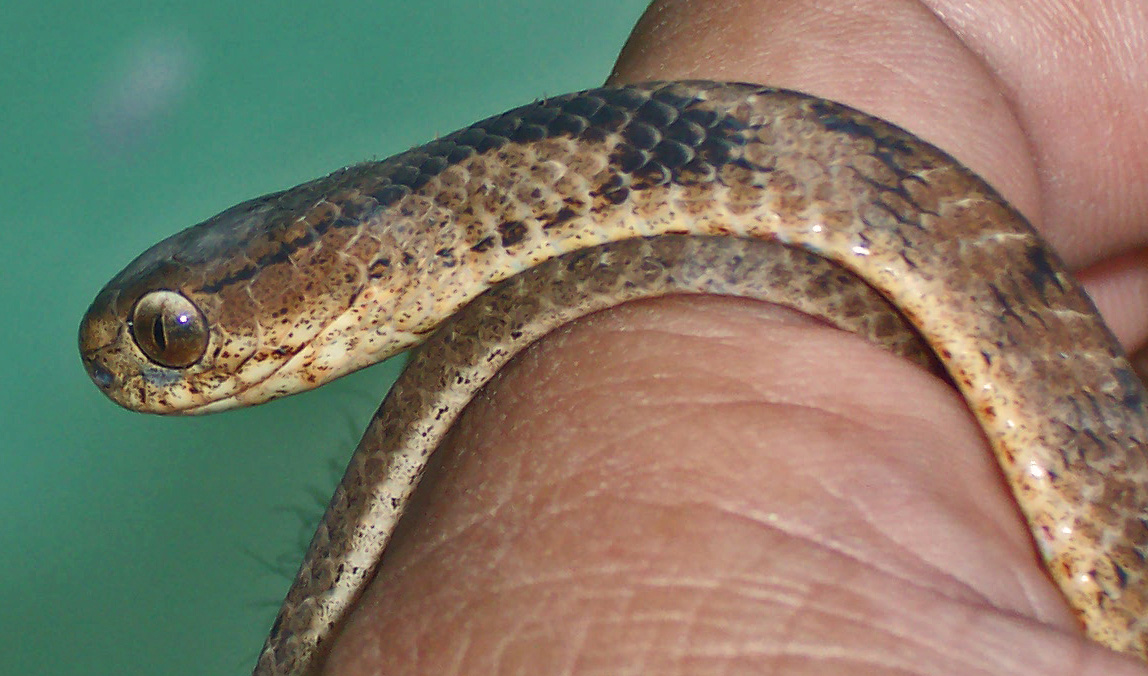 Pareas carinatus, from Bogor, West Java, Indonesia